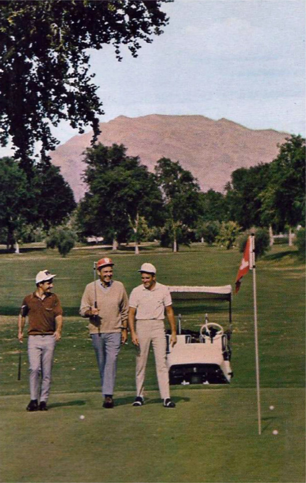 Photo of golfers at the Desert Inn in 1970 from a postcard.